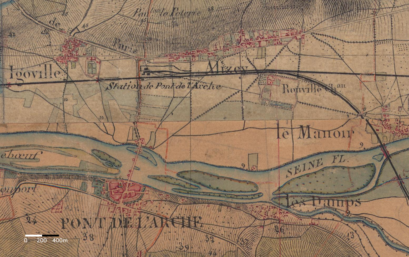 Map of the Seine river around Pont-de-l'Arche, in Eure, France